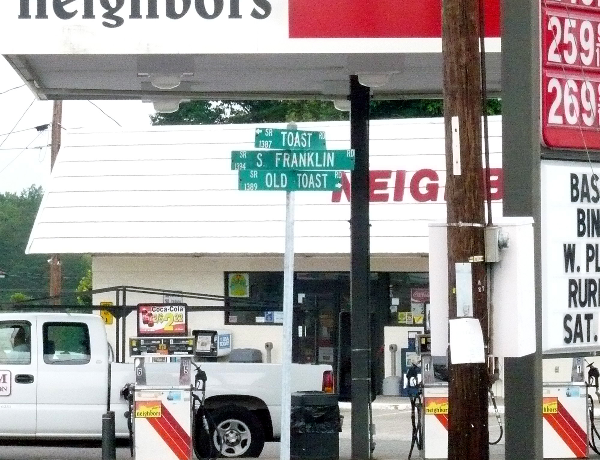 Downtown Toast, United States. Photo taken on Thursday, June 4, 2009.